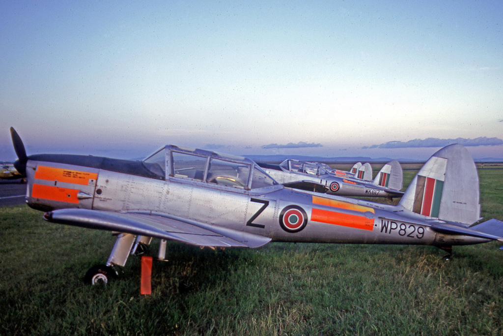 De Havilland Chipmunk T.10 WP829 of the Kenya Air Force at Nairobi (Wilson) Aerodrome in 1973